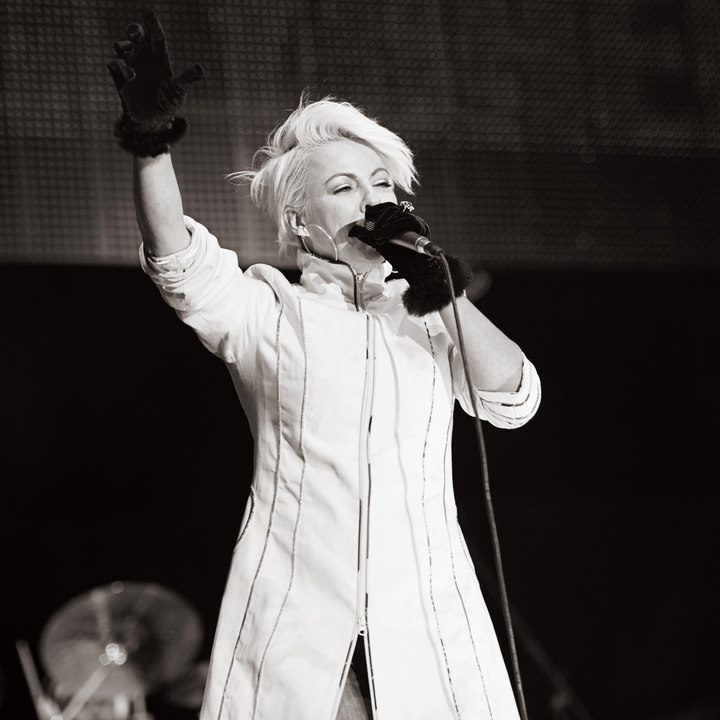 Pamela Spence Van için Rock